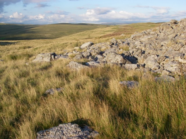 Mynydd y Glog in the evening light The boulders of conglomeratic gritstone mark the north-facing scarp of the Basal Grit stretching away to the east from the vicinity of the limestone quarry of Cwar Llwyn-on.